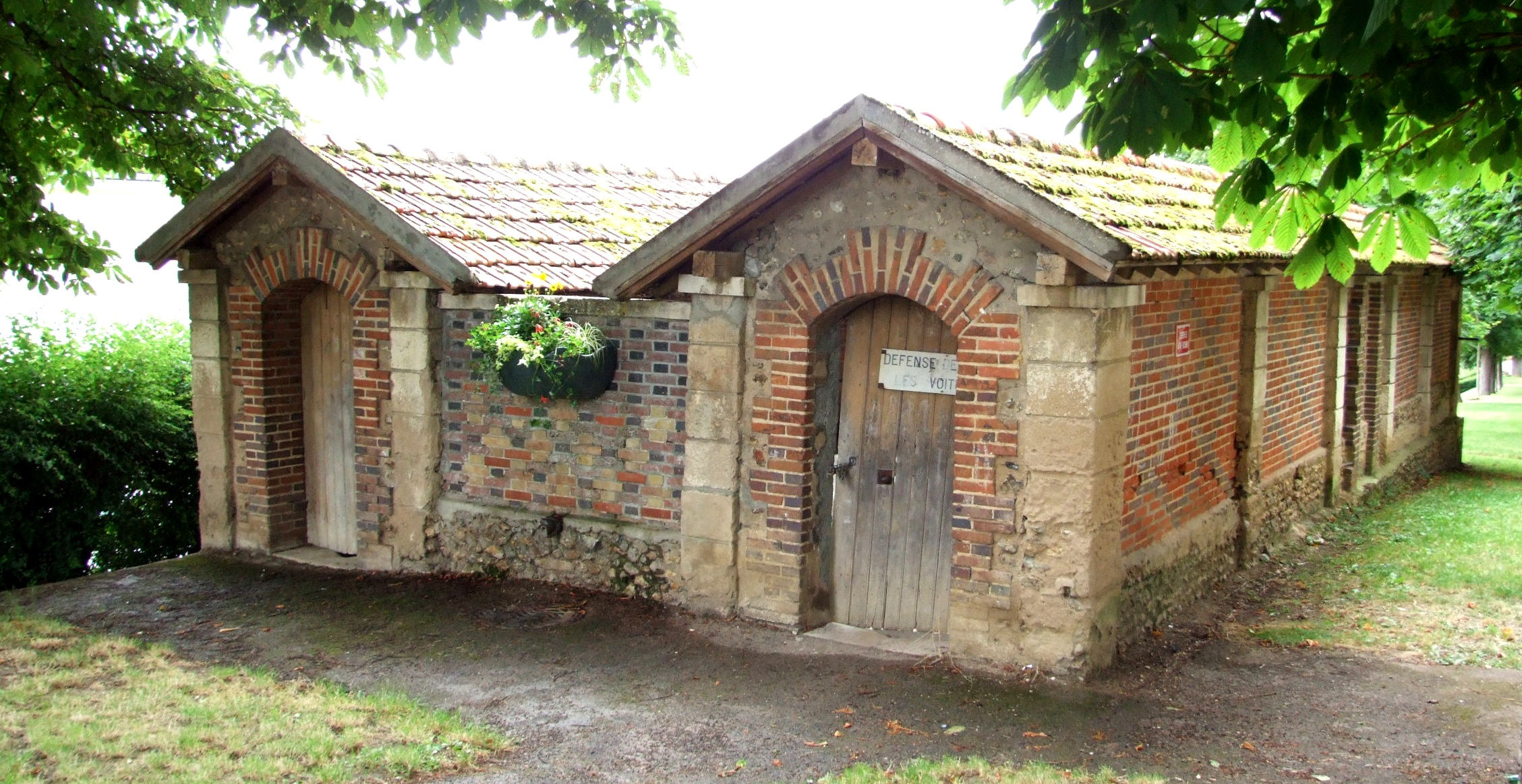 Joigny, Yonne, Burgundy, FRANCE